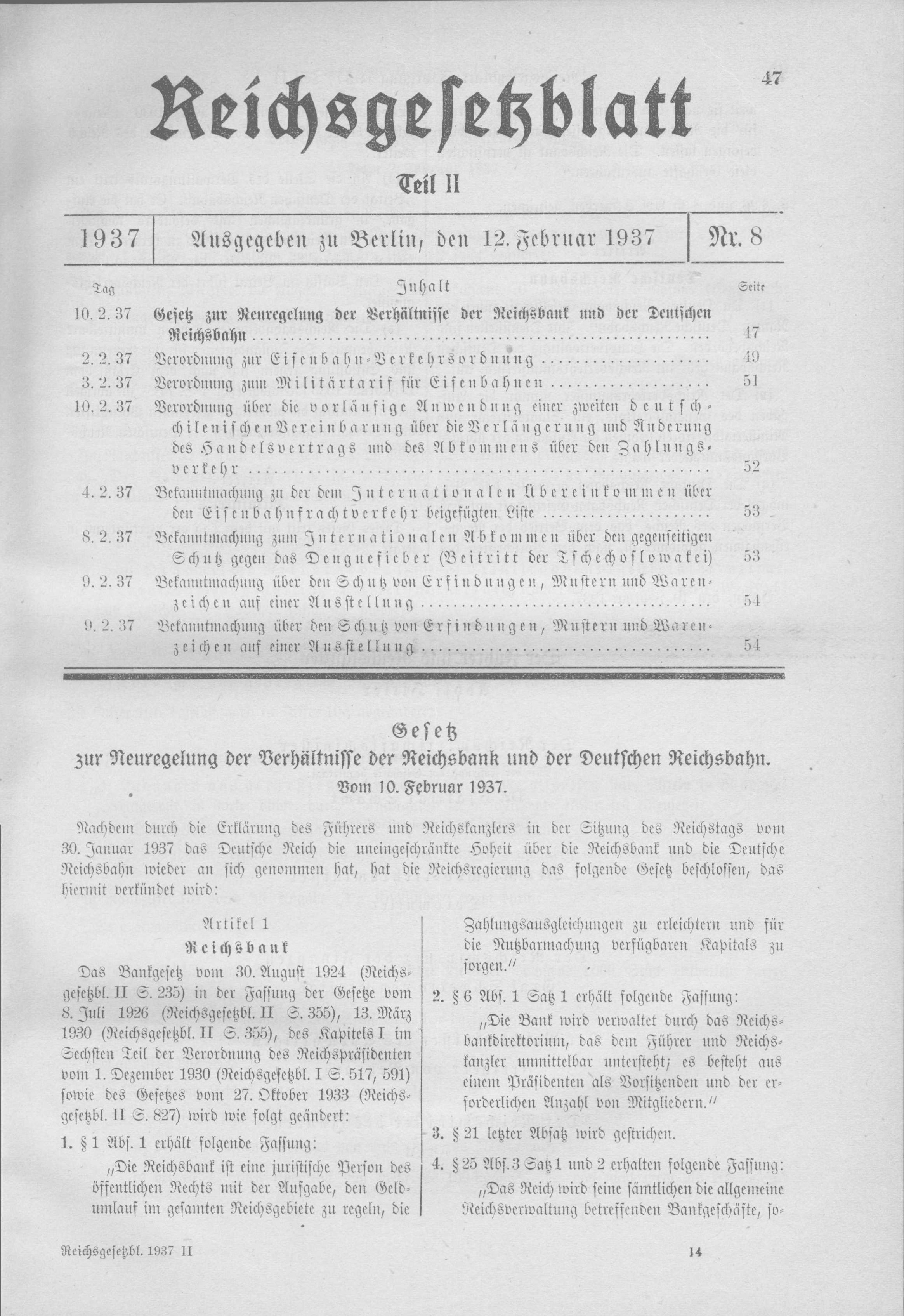 Scan from the Imperial Law Gazette of Germany, 1937, part 2